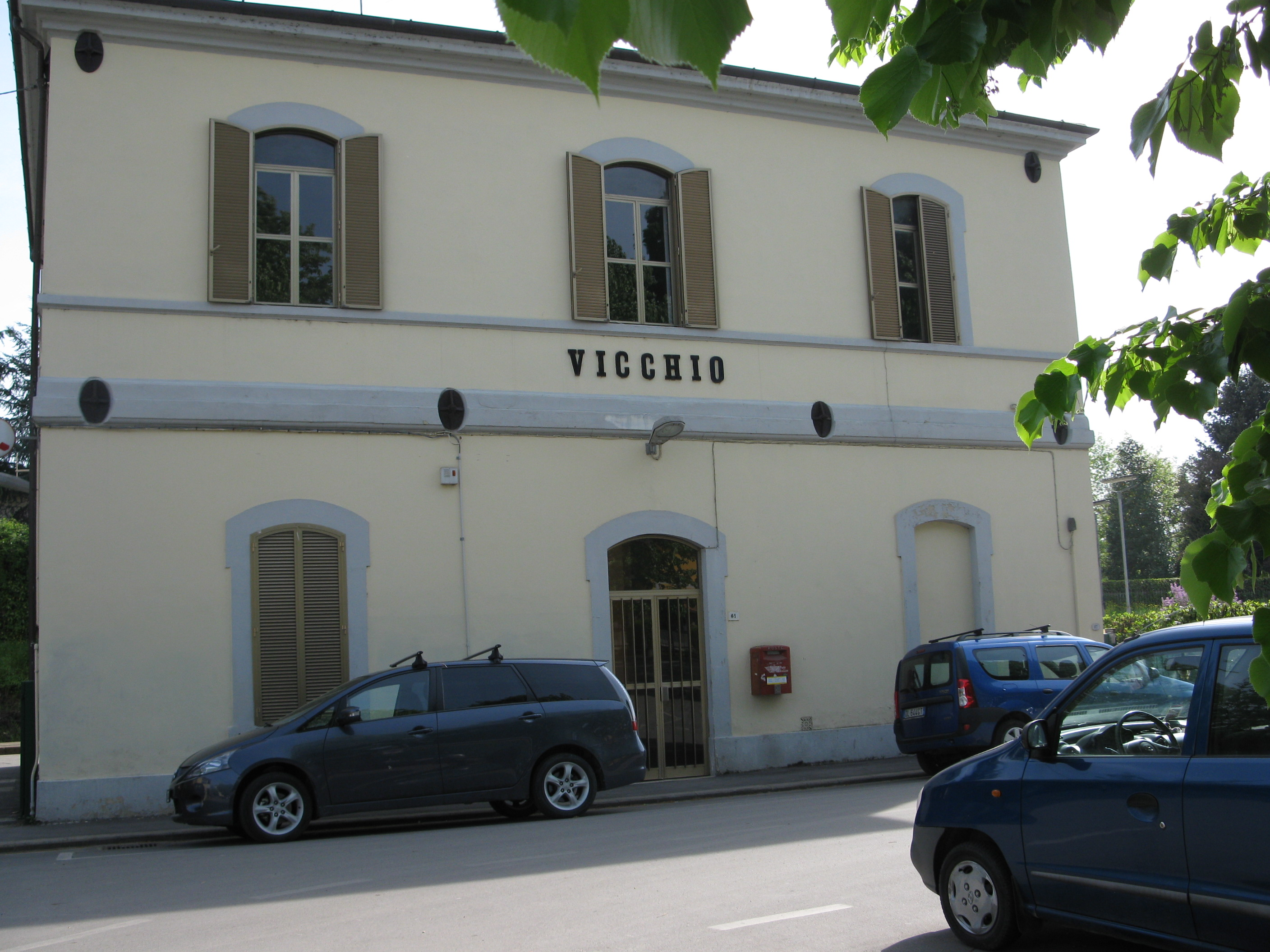 Vicchio railway station, station building